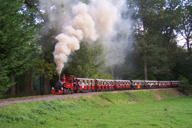 Longleat Railway - No.6 John Hayton climbing the bank